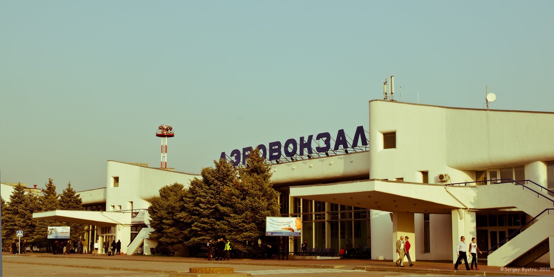 Rostov-on-Don Airport (Russian: Аэропорт Ростов-на-Дону) Aeroport Rostov-na-Donu (IATA: ROV, ICAO: URRR) is an international airport located 9 km (6 mi) east of the city of Rostov-on-Don, in southern Russia.